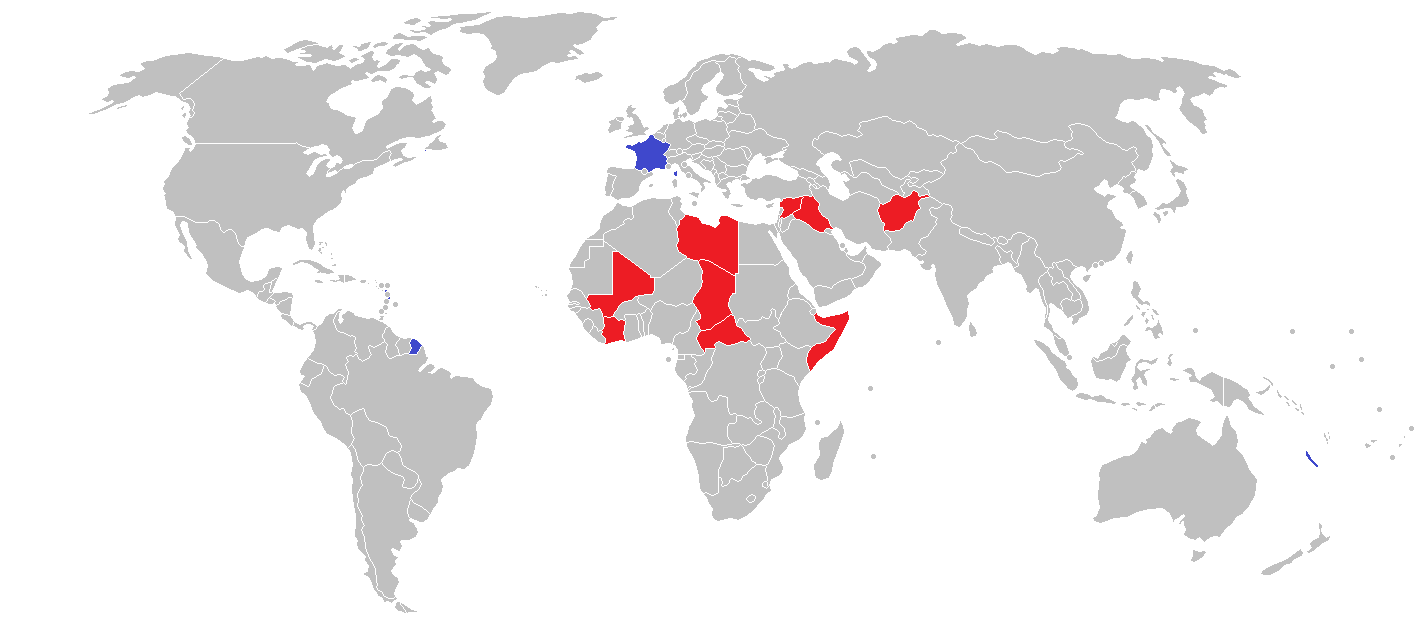 French military interventions since 2001